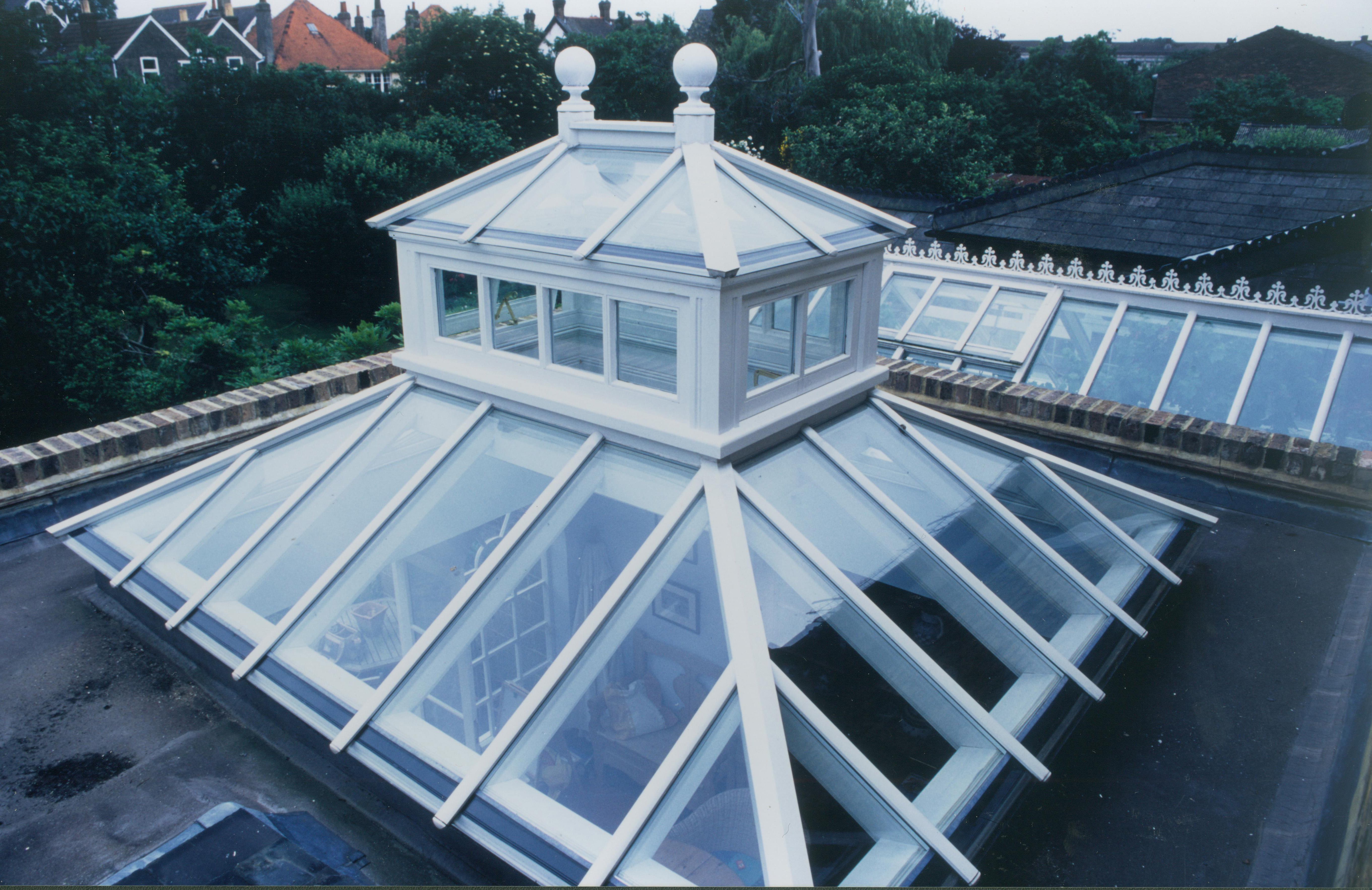 Roof Lantern